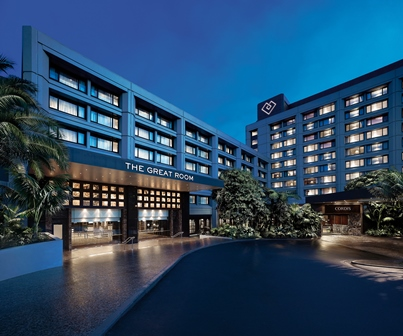 Cordis Auckland Exterior